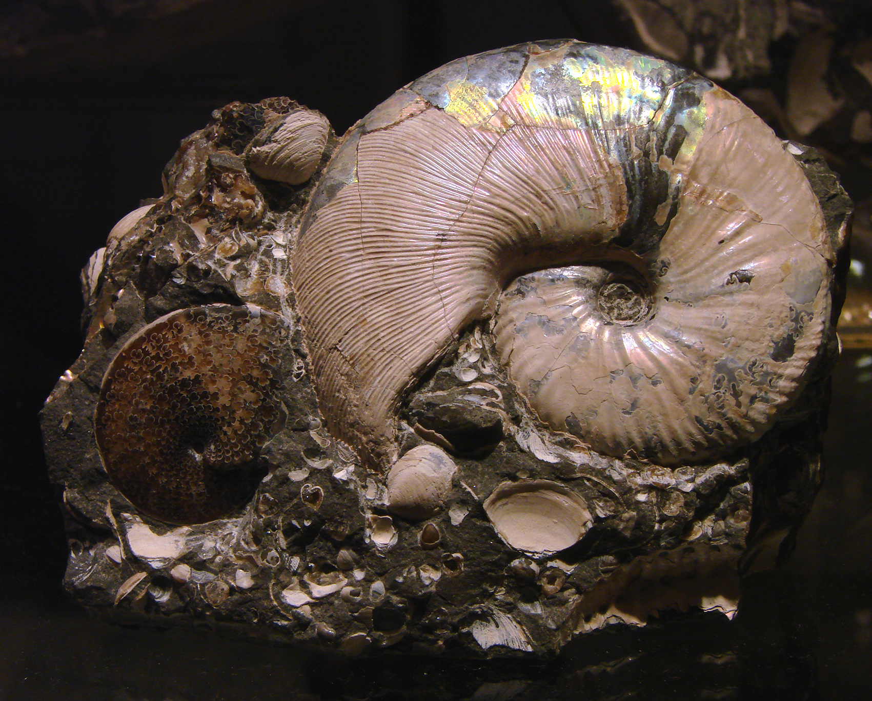 Ammonites.